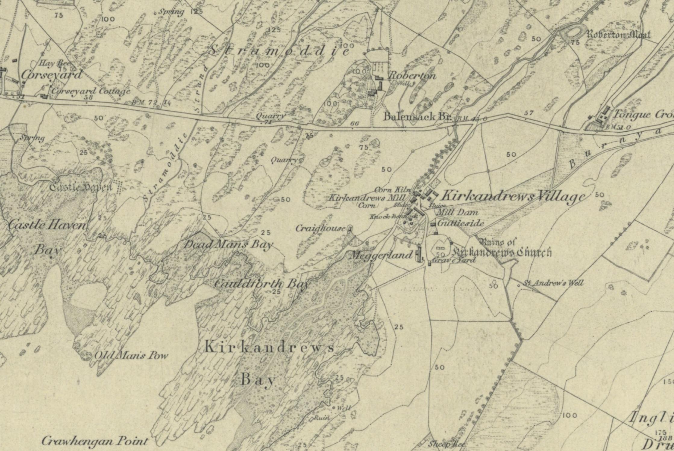 The survey was conducted in 1850, and the map was published in 1854